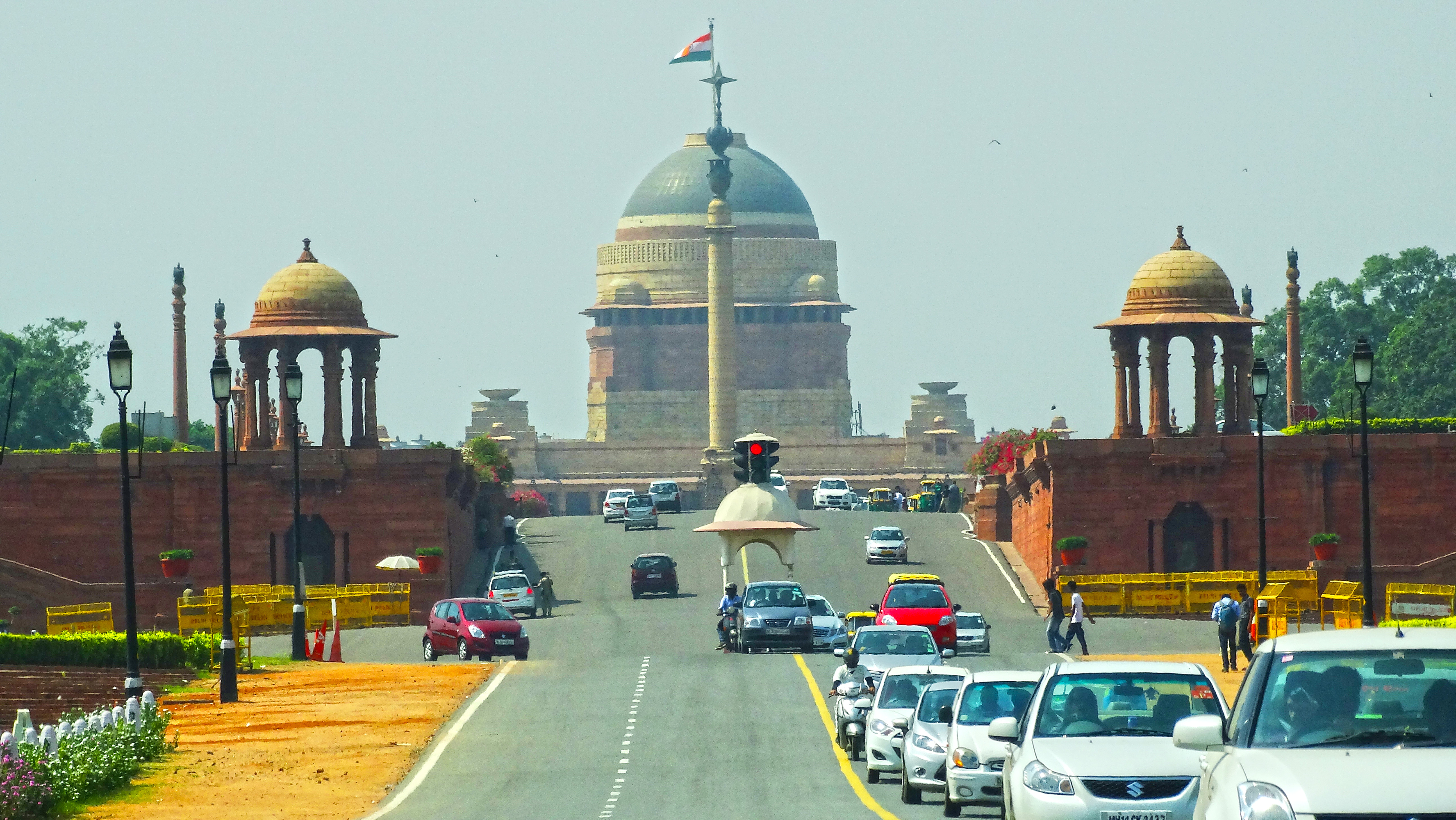 A view of the central dome of the Rashtrapati bhawan, New Delhiঅসমীয়া: ৰাষ্ট্ৰপতি ভৱনৰ এক দৃশ্য, নতুন দিল্লী